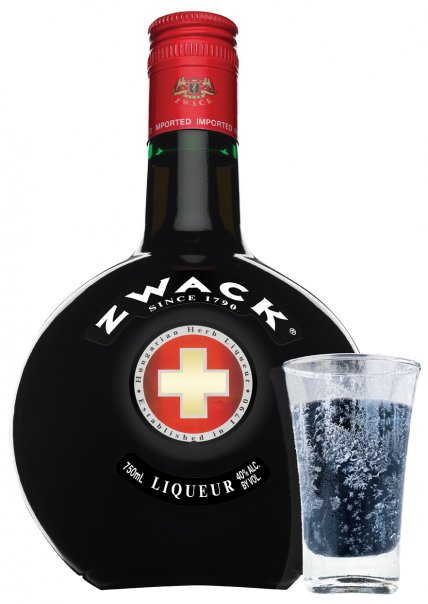 US distribution bottle of Zwack liqueur and shot glass